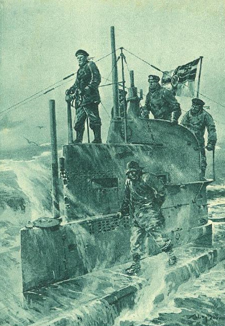 Command tower of a German submarine. Illustration by Willy Stöwer.